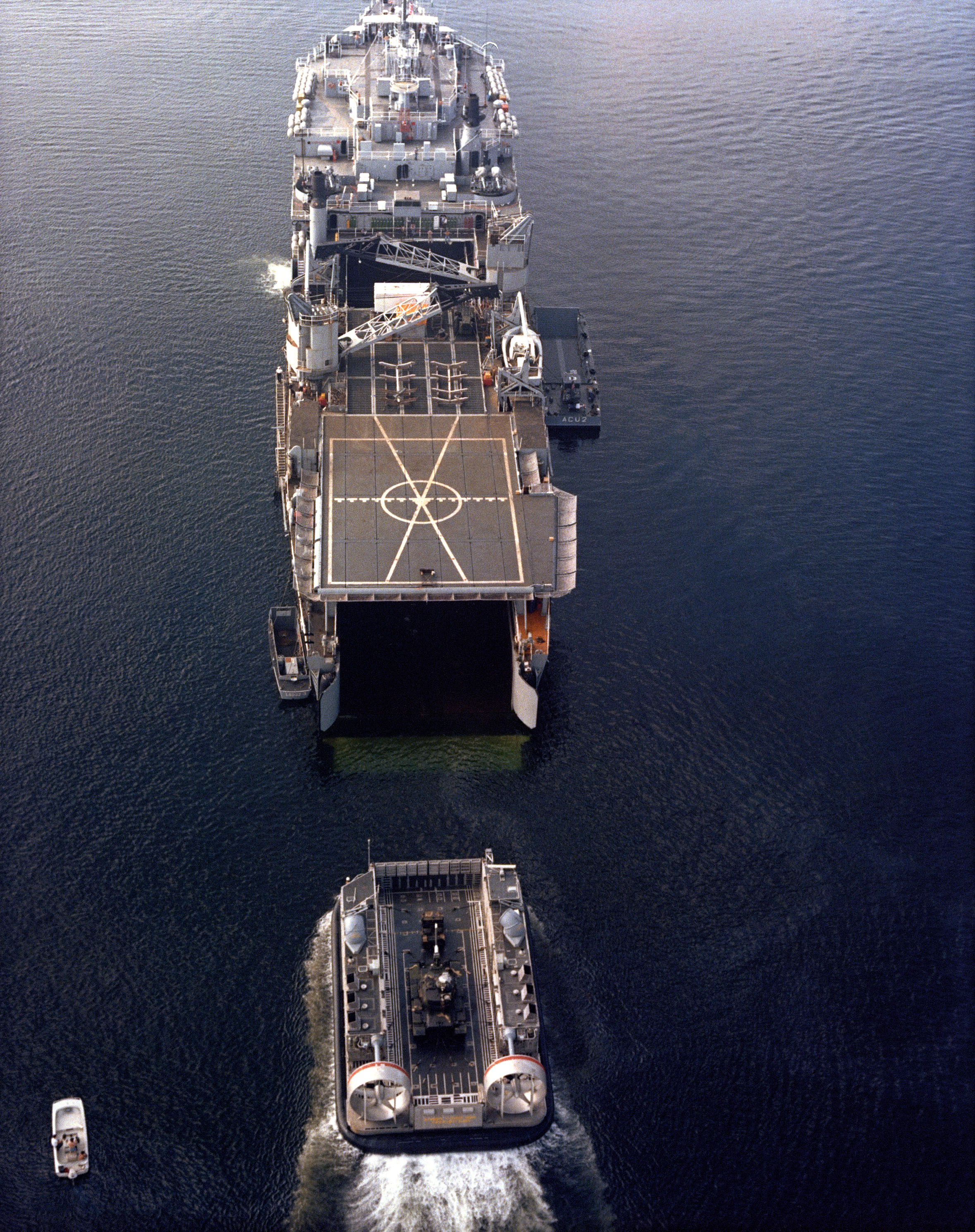 The U.S. Navy amphibious assault landing craft Jeff-B (AALC) approaches the docking well of the dock landing ship USS Spiegel Grove (LSD-32) during operations off the coast of Florida (USA), in 1984.